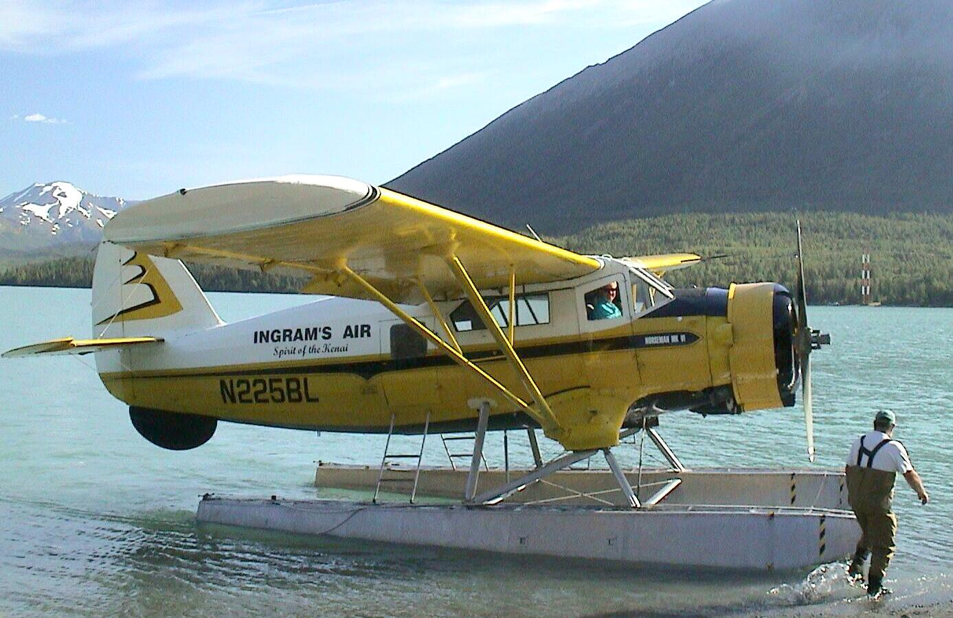 Picture of a Norseman still operating as a charter in Cooper Landing, Alaska. I (Eric V. Blanchard) took this photo in August 2003. I permanently relinquish all rights to the work. Evb-wiki 04:08, 23 December 2006 (UTC)